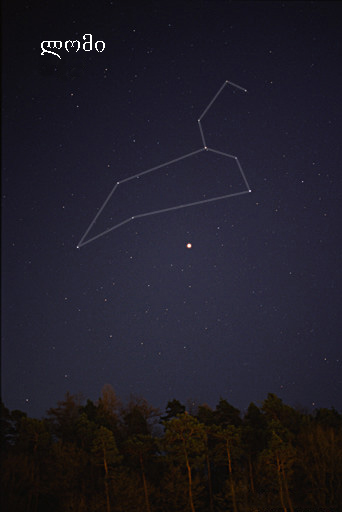 Photography of the constellation Leo, the lion